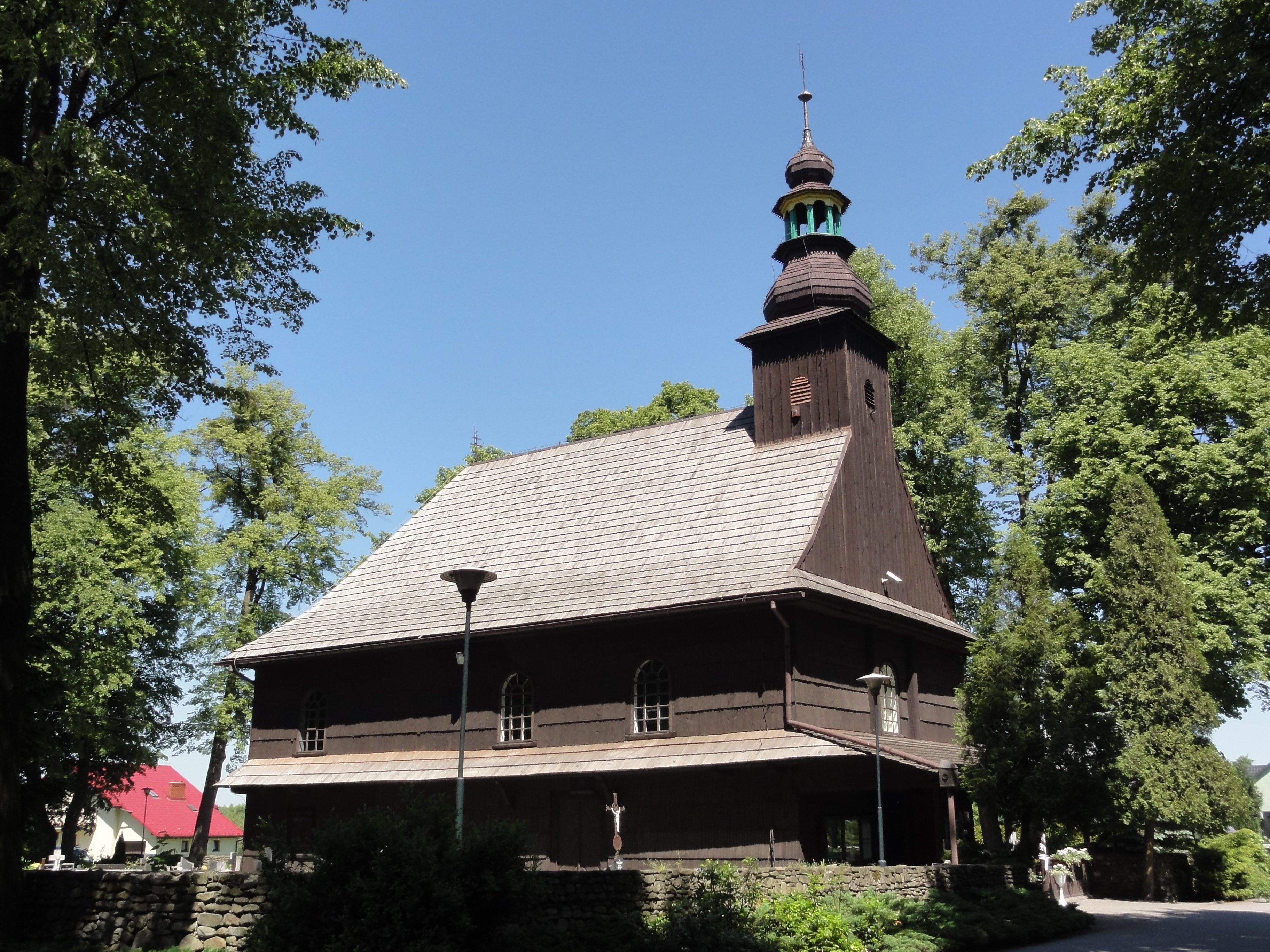 Church of St. Anne in Ustroń-Nierodzim